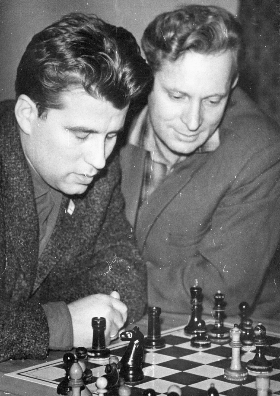 Pavel Kondratiev and Vyacheslav Osnos